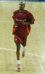 Ariel McDonald with Akasvayu Girona. Match ViveMenorca-Akasvayu Girona